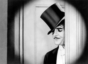 Still from the American comedy film Seven Years Bad Luck (1921), starring and directed by Max Linder (1883-1925).